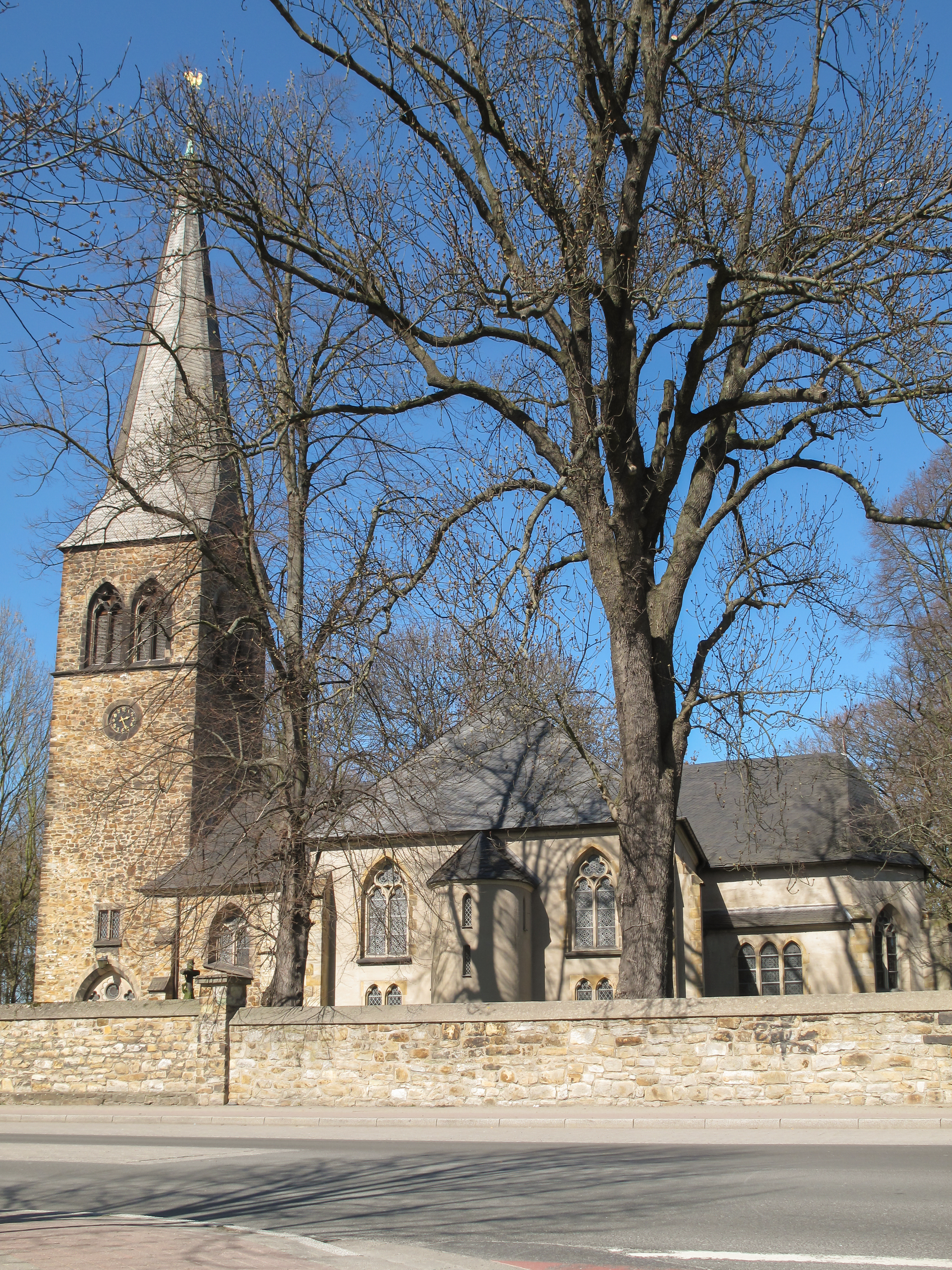 Heeren-Werve, reformed church